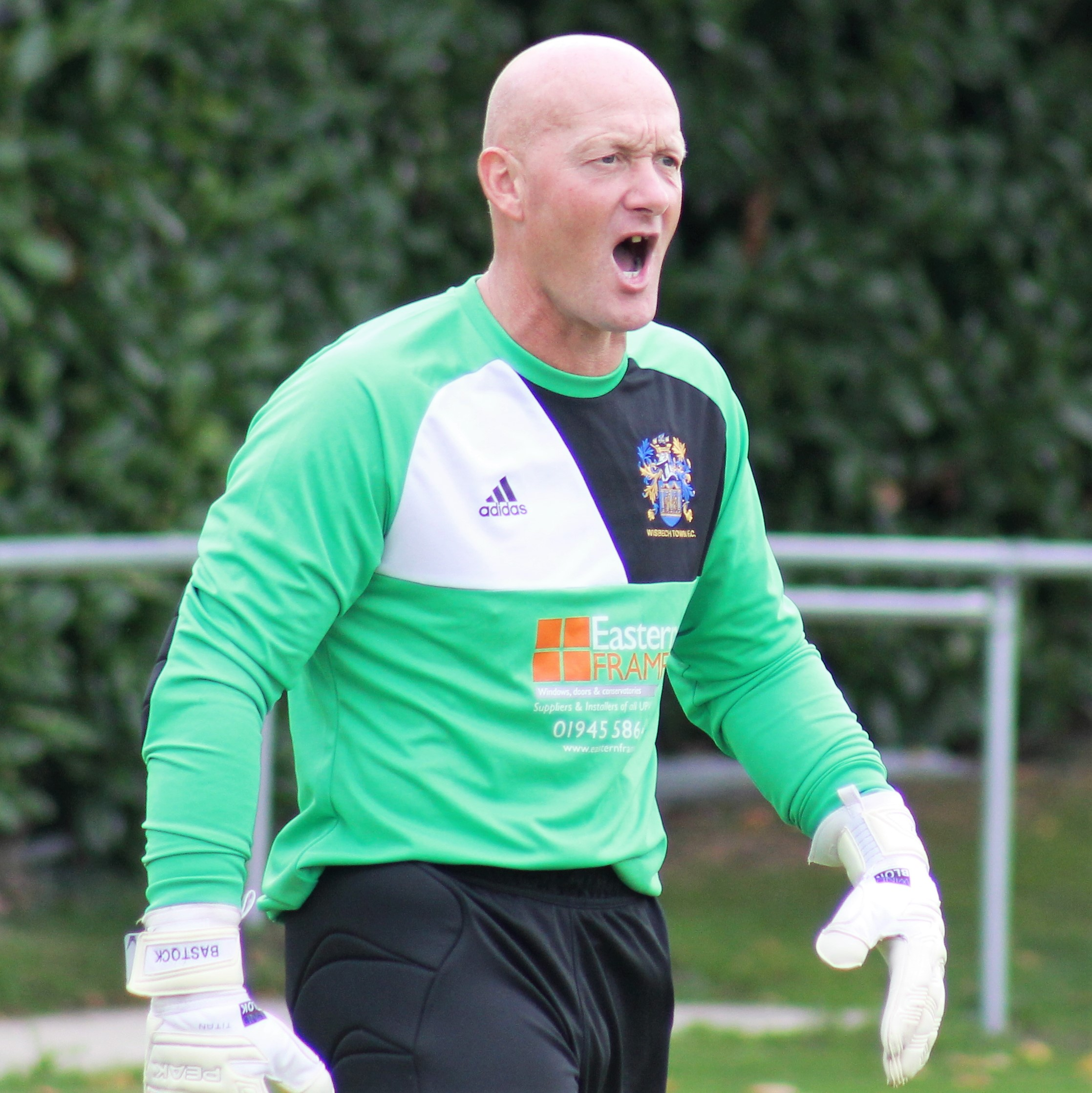 Paul Bastock on his Wisbech Town F.C. debut, 23rd September 2017